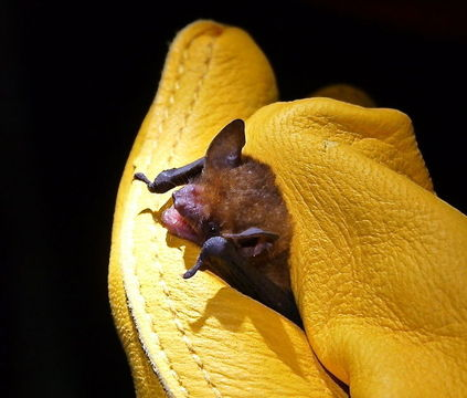 A Thomas' Yellow Bat (Rhogeessa io) captured in the Caroni Swamp, Trinidad, by a Trinibats team led by Luke Rostant